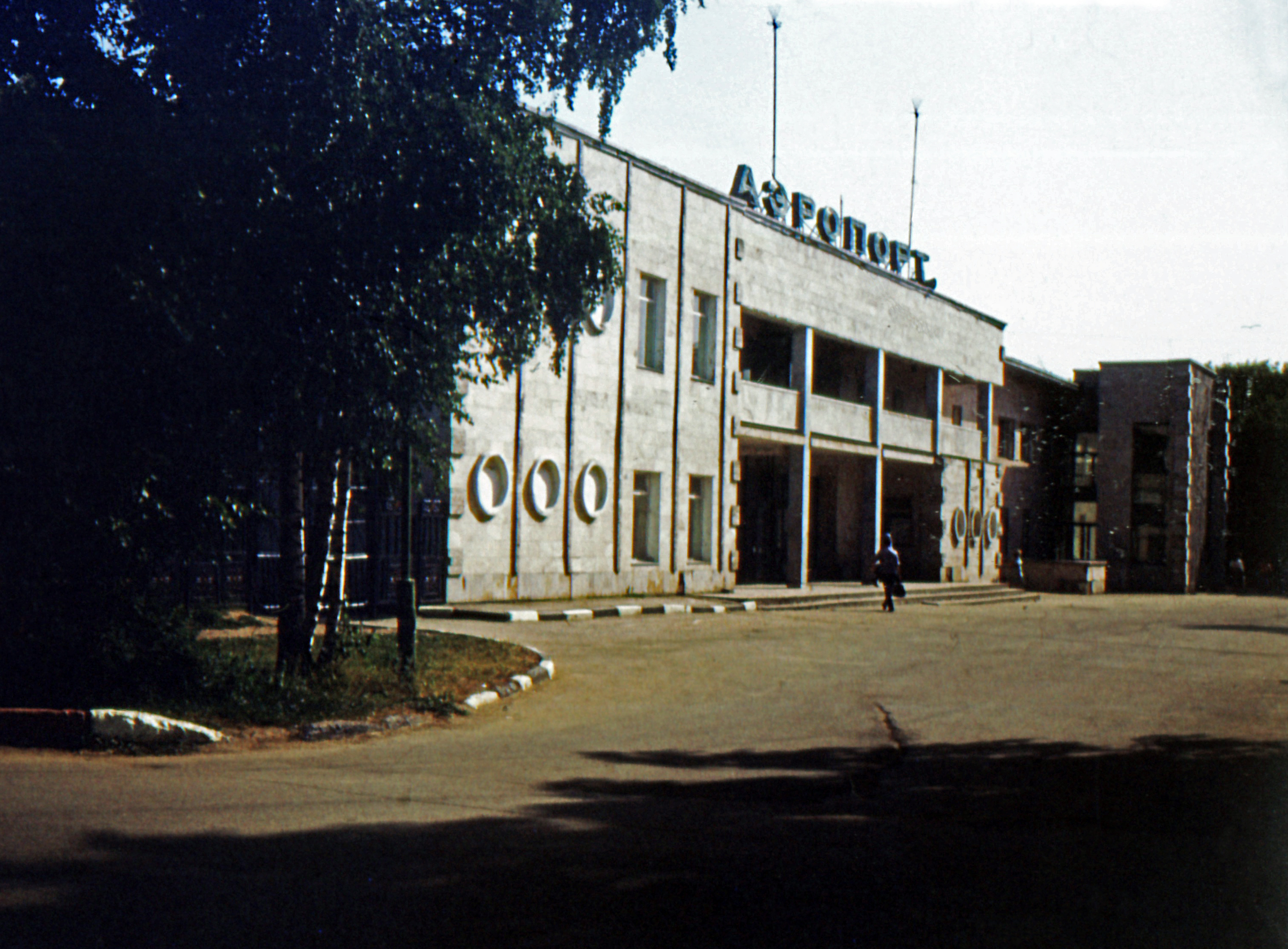 Terminal of Cheboksary airport before reconstruction